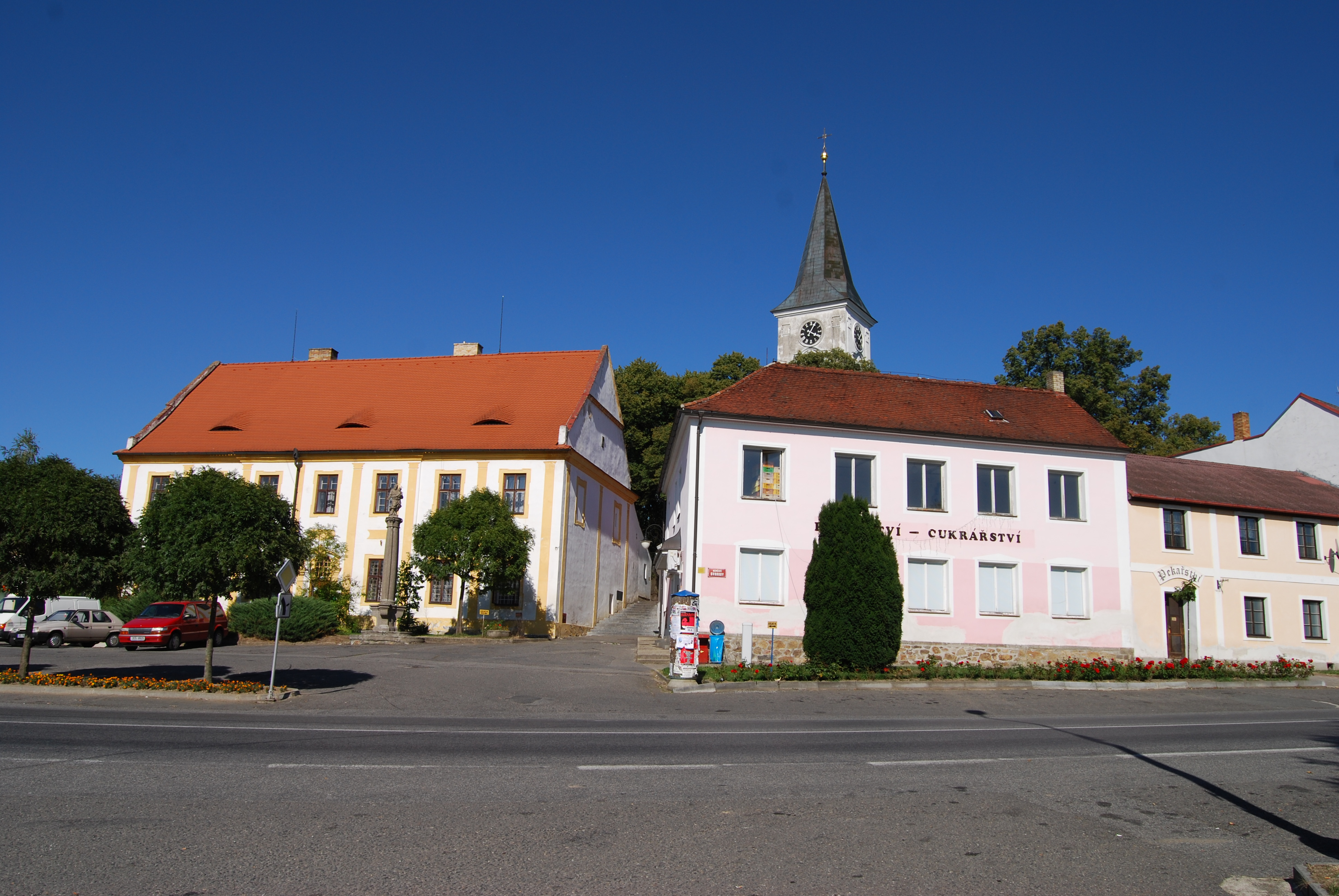 Bernartice village in Písek District, Czech Republic.